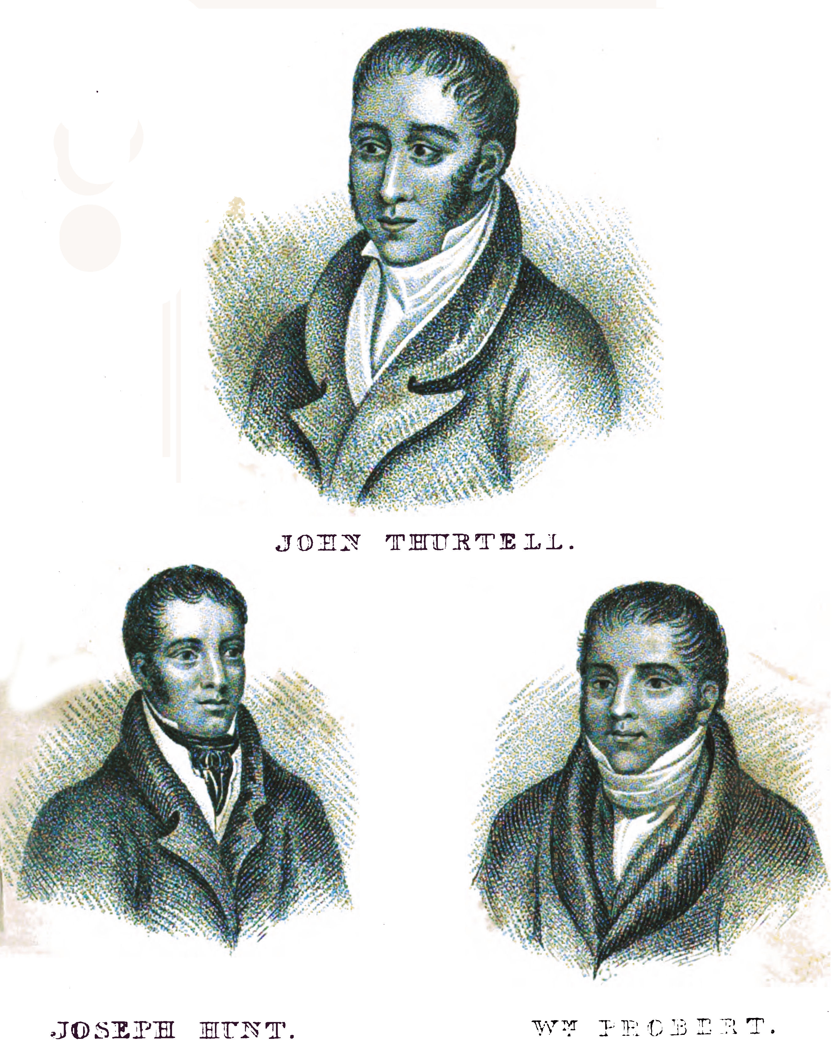 Elstree Murder killer John Thurtell, and his accomplices Joseph Hunt, and William Probert. Their victim was William Weare.